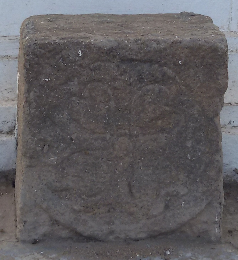 Kottakkavu Sliva is a Persian cross founded by Mar Sabor and Mar Proth. It is kept at Kottakkavu Mar Thoma Pilgrim Center, North Paravur. Kottakkavu Mar Thoma Syro-Malabar Church was founded by St. Thomas the Apostle in the first century.